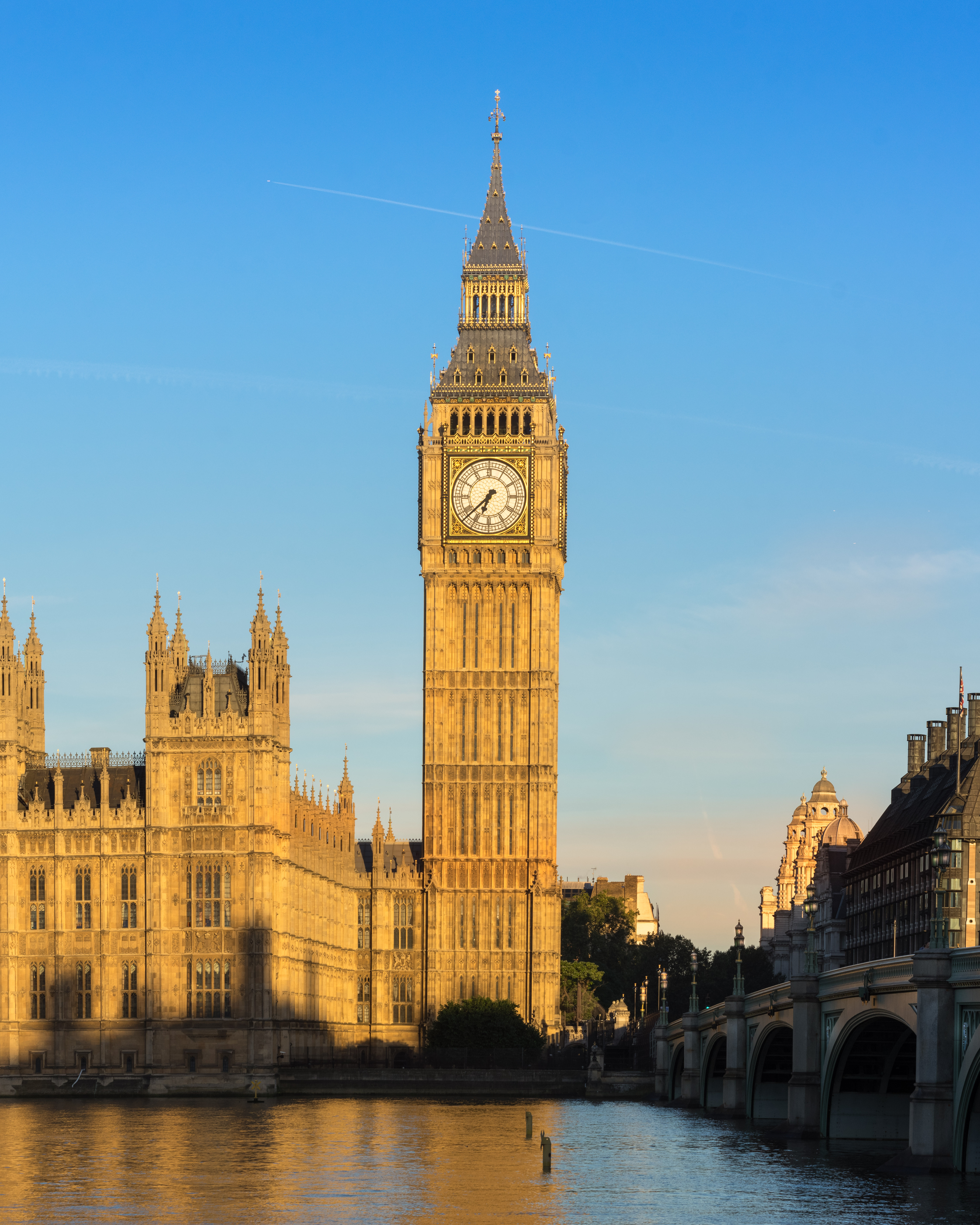 Elisabeth Tower at sunrise.